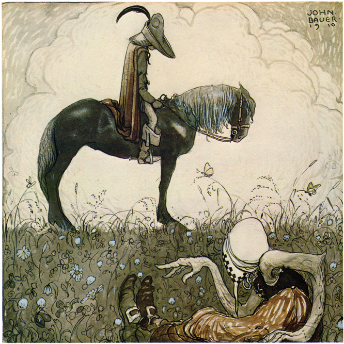 Illustration for "Trollritten" (The magic ride) by Anna Wahlenberg in "Bland tomtar och troll" (Among gnomes and trolls), 1910.